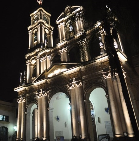 Church in Jujuy city, Argentina